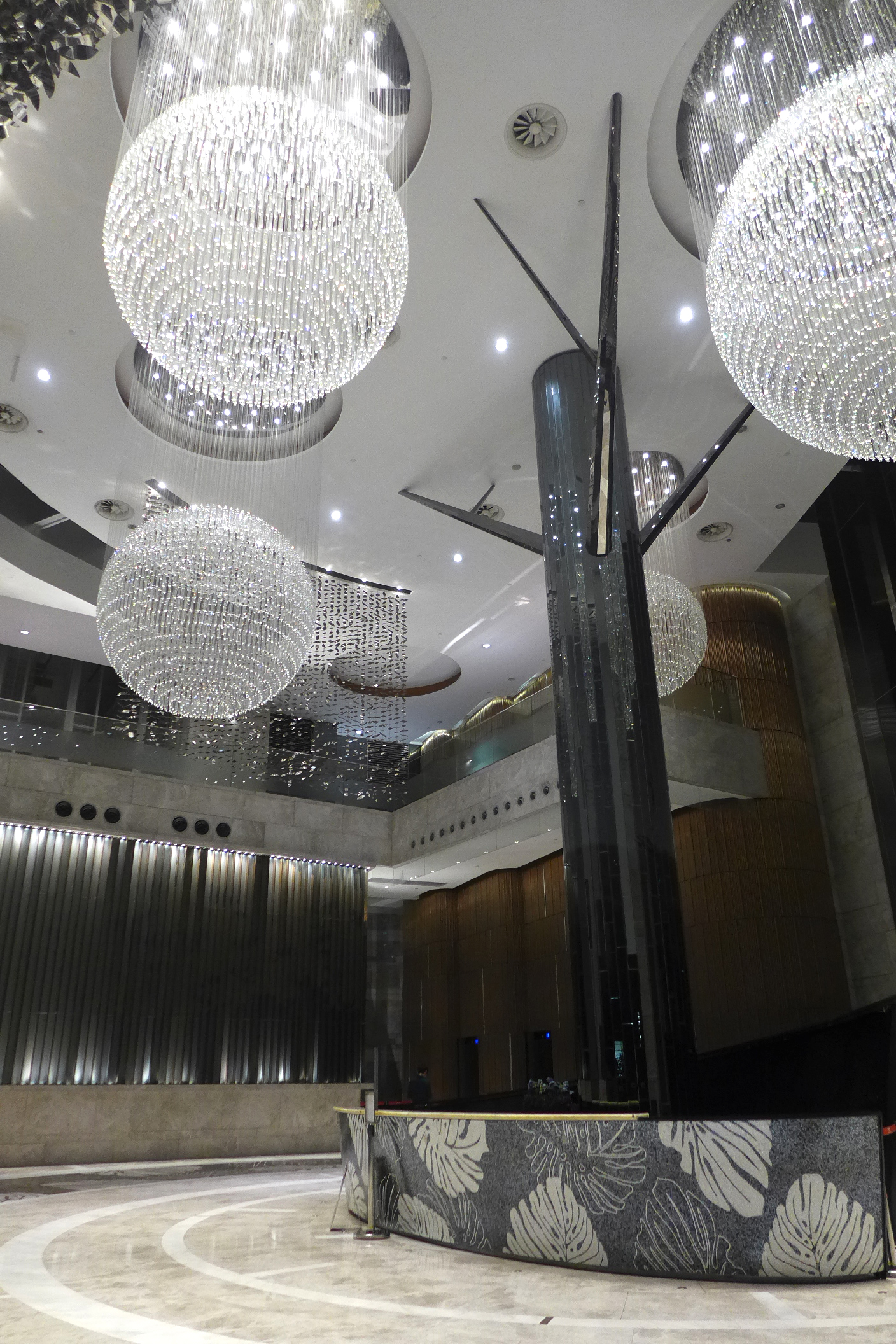 Festival City ICON Lobby